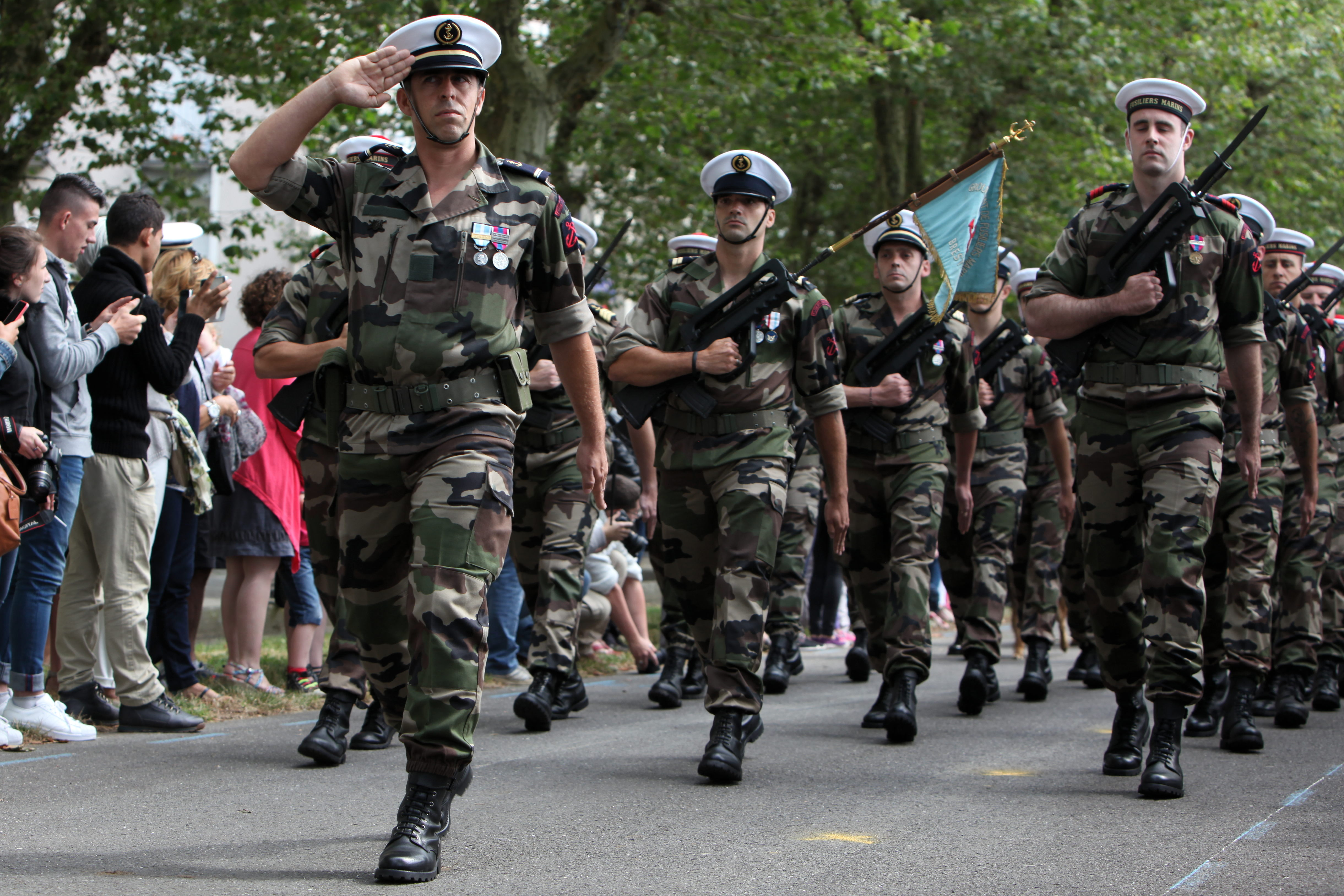 Fusiliers Marins attending ceremonies of the 14 July 2015 in Brest